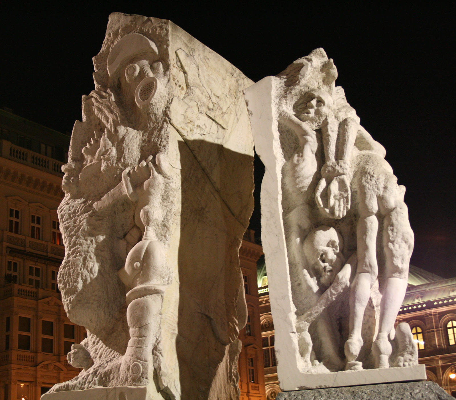 'The Gate of Violence', part of the Mahnmal gegen Krieg und Faschismus (Memorial against War and Fascsism) by Alfred Hrdlicka in Vienna